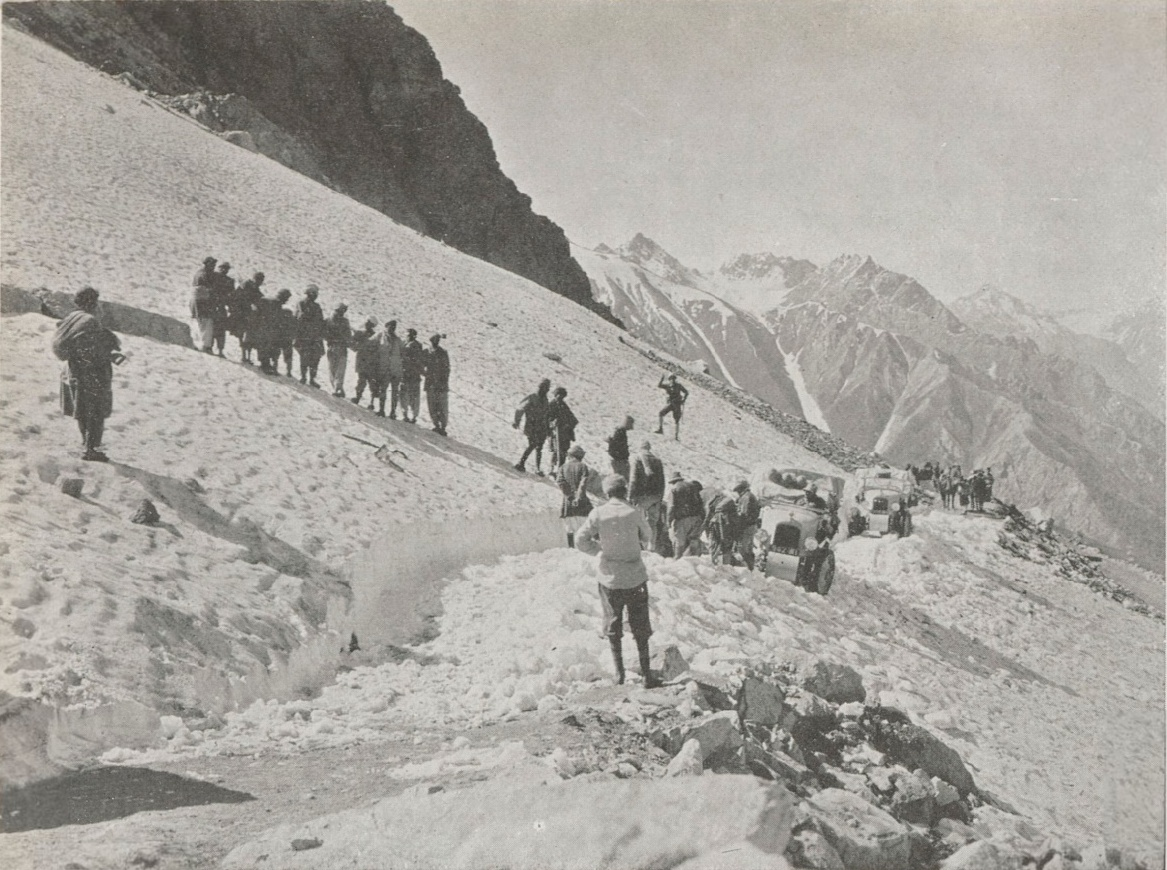 Vehicles crossing for the first time the Burzil Pass at an altitude of 4,200 meters in the Himalayas in 1931. Photograph published in March 1934 in the monthly magazine Le Monde colonial illustré . Expedition Center-Asia Citroën 1931 - 1932 (Croisière Jaune).